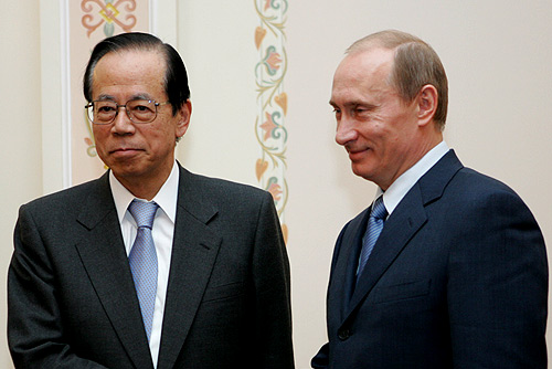 NOVO-OGARYOVO. With Japanese Prime Minister Yasuo Fukuda.